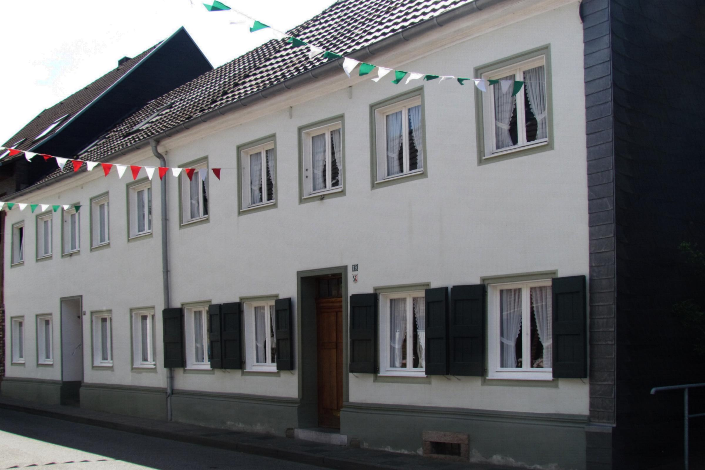 This is a photograph of an architectural monument.It is on the list of cultural monuments of Korschenbroich